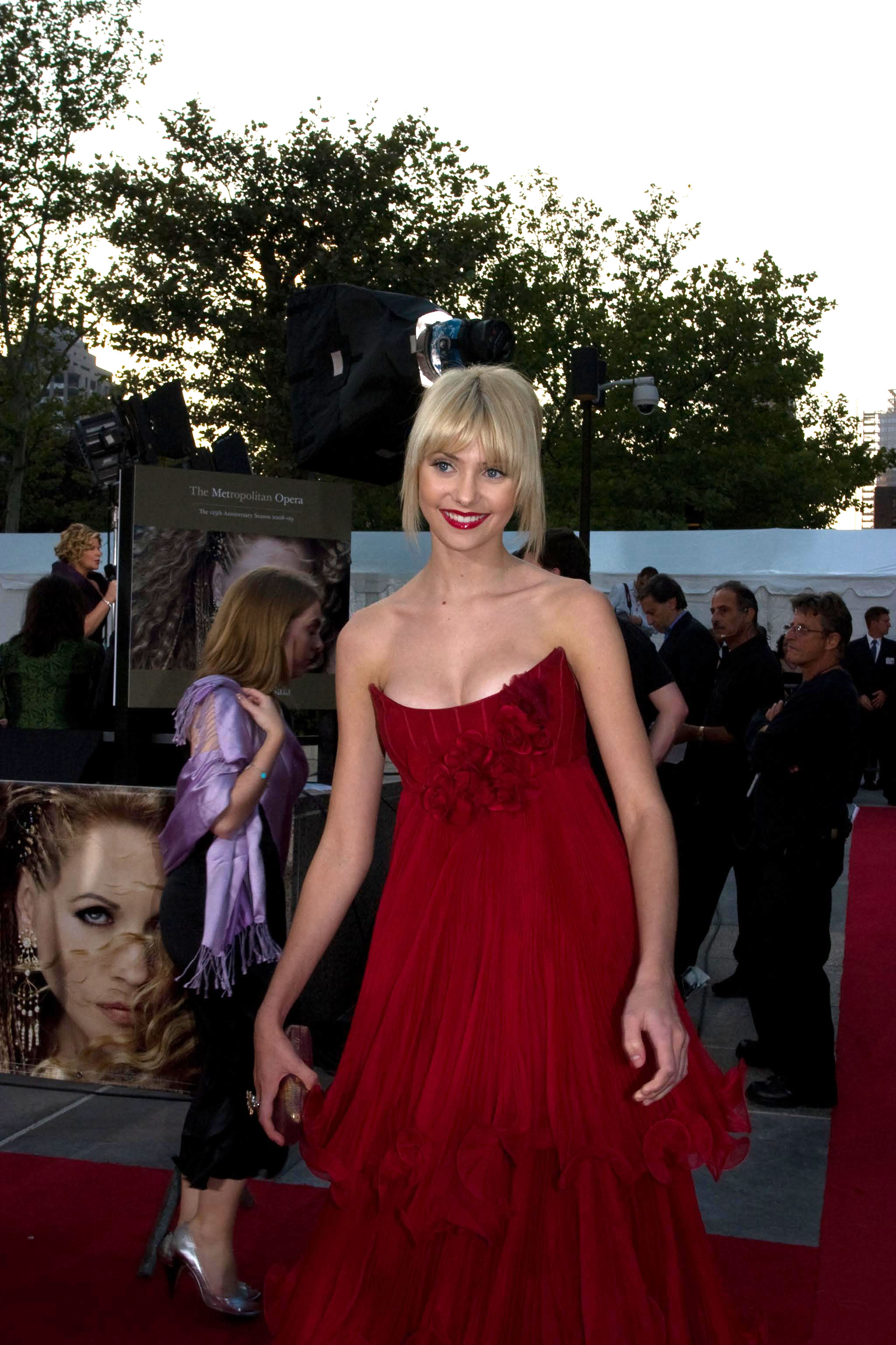 Taylor Momsen at Met Gala Opening